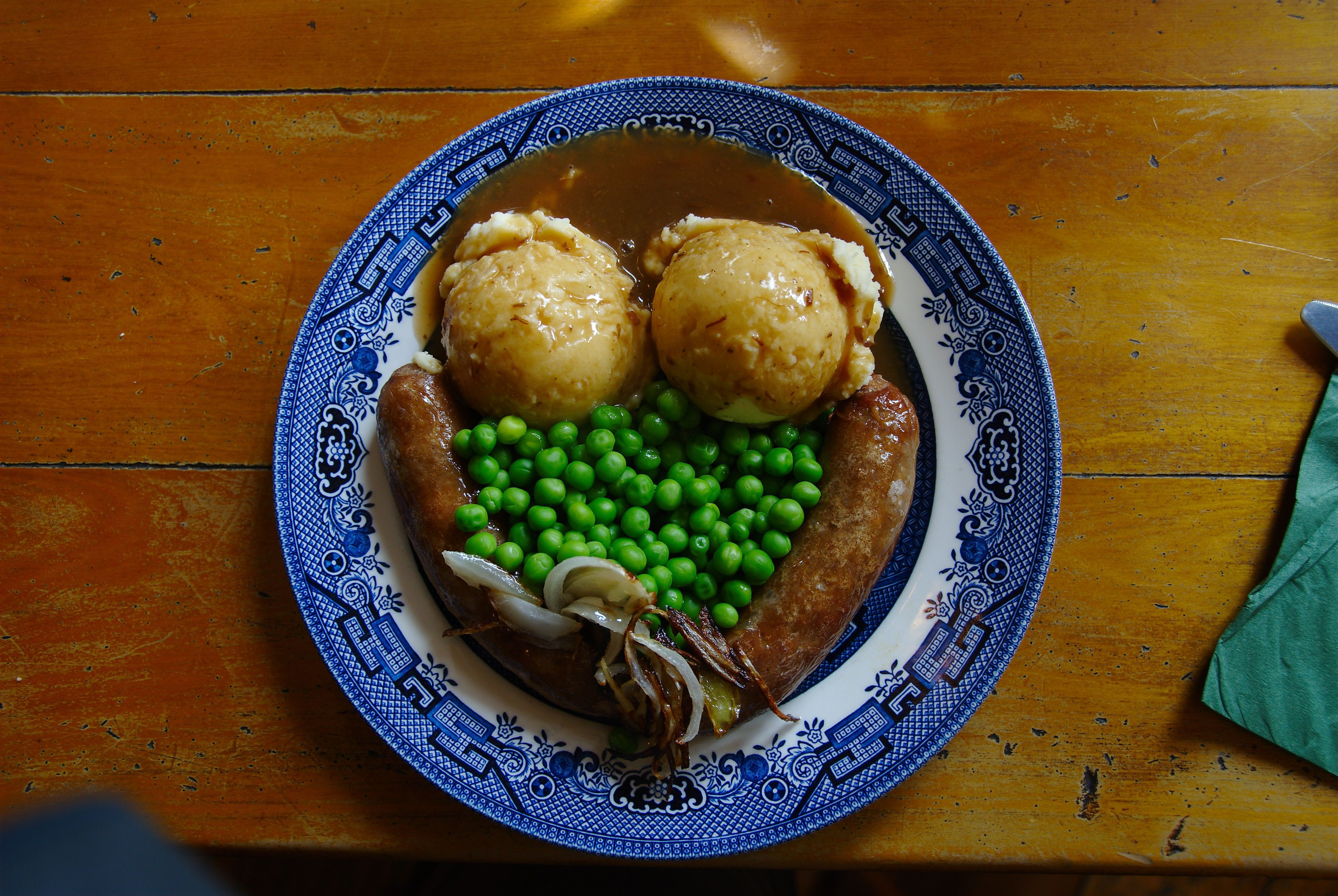 Image title: Bangers mash on old China plate on wooden table Image from Public domain images website